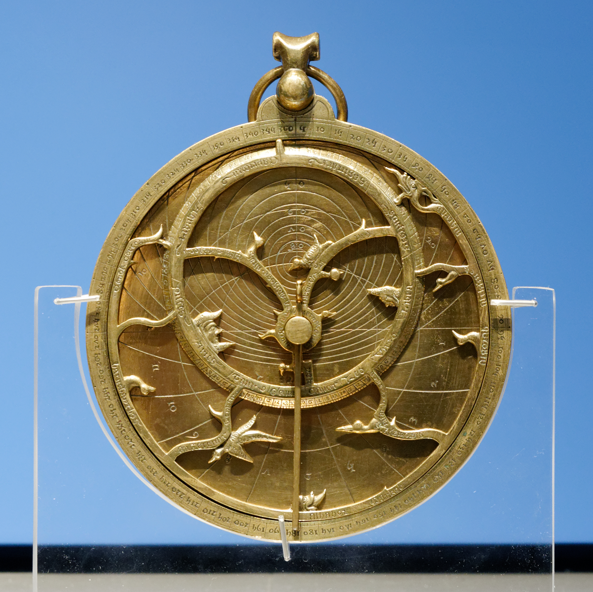 Astrolabe, the oldest dated in Europe.